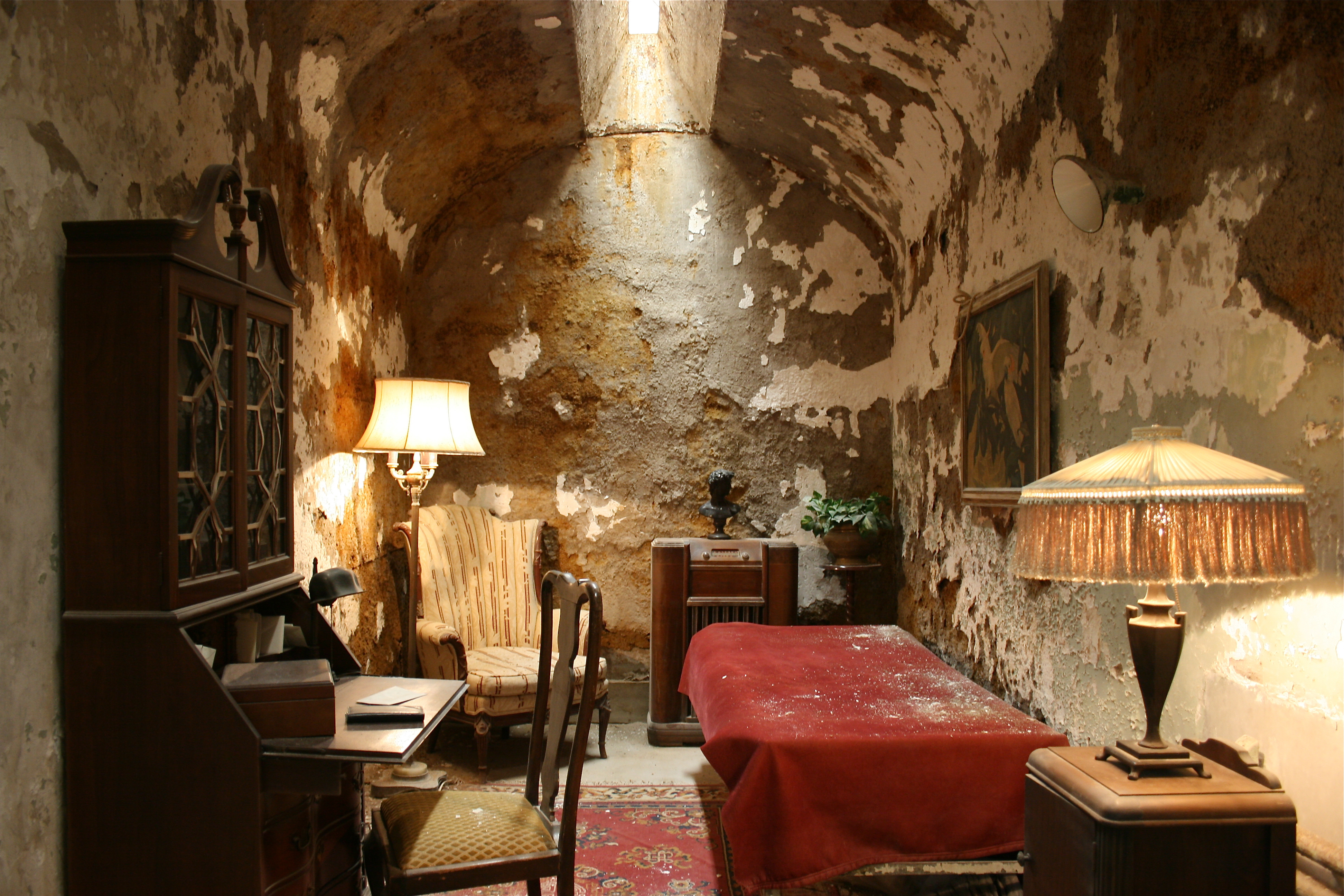 An inside, high-resolution picture of Al Capone's cell as it exists today at Eastern State Penitentiary.